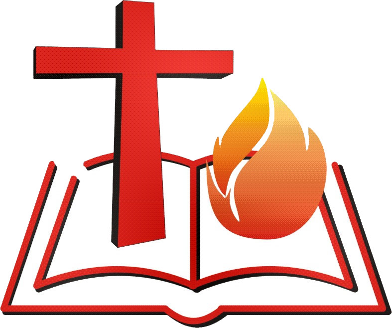 Church logo